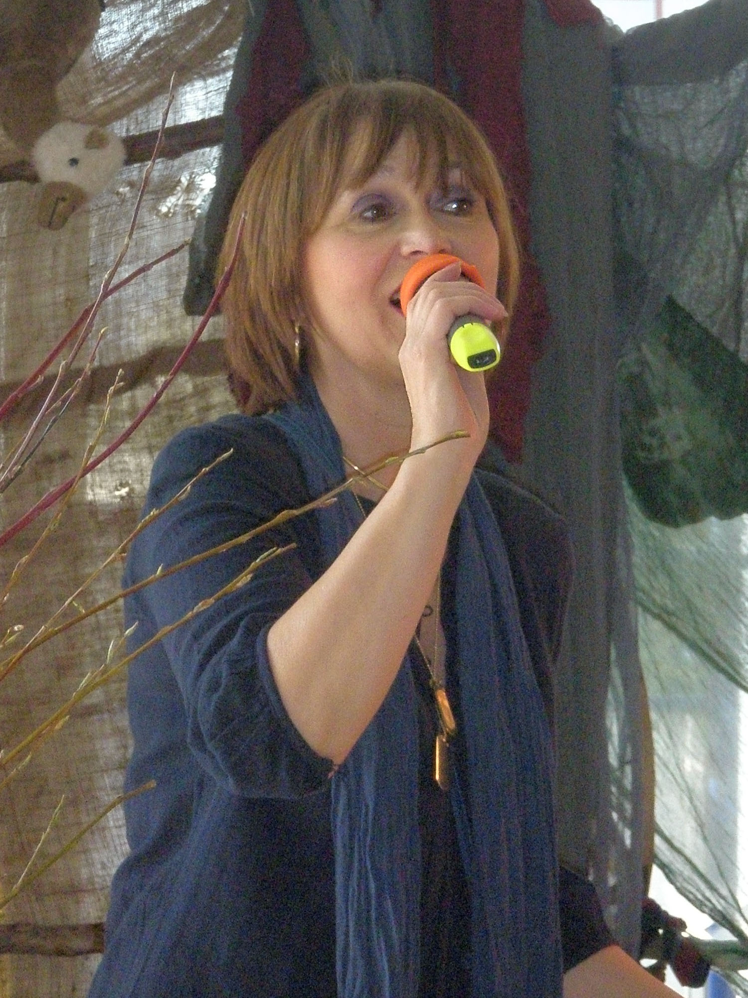 Czech singer and actress Petra Černocká